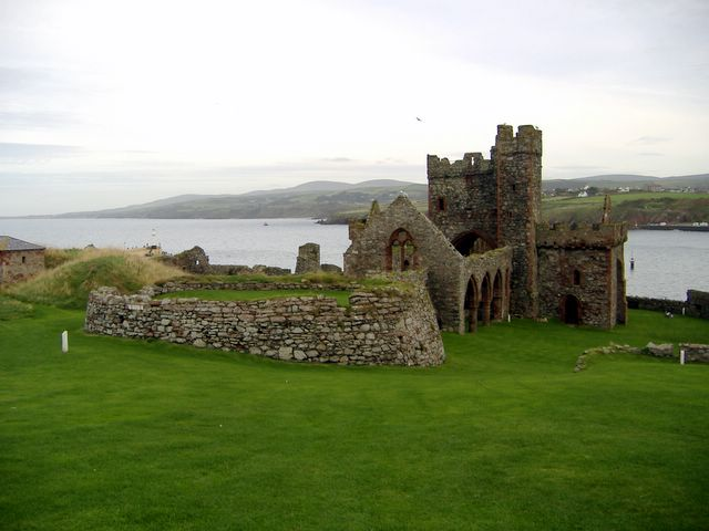 St Germans' Cathedral, Peel Castle, Isle of Man